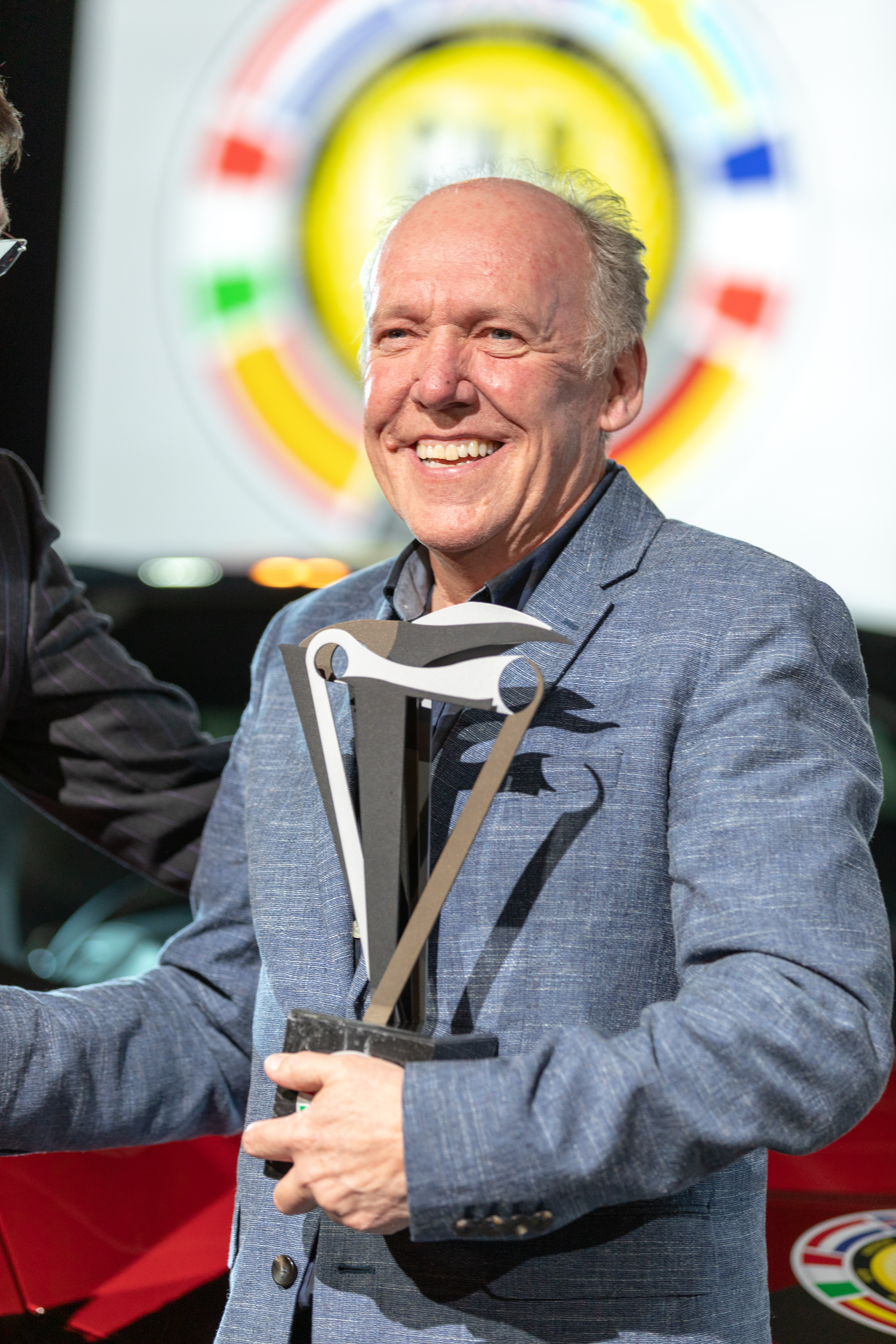 Car of the Year Award 2019